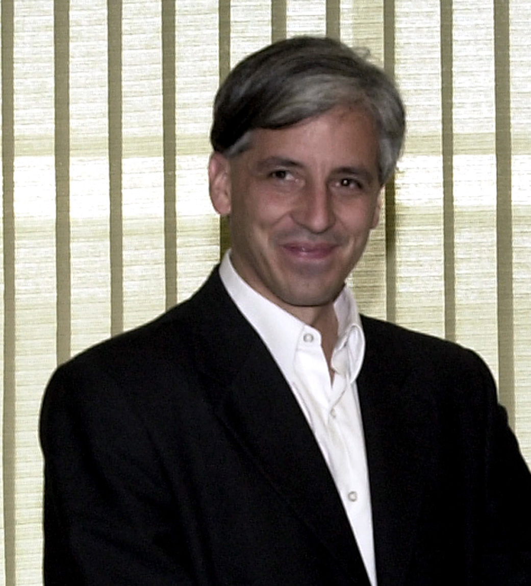 Portrait of Álvaro García Linera, vice-president of Bolivia